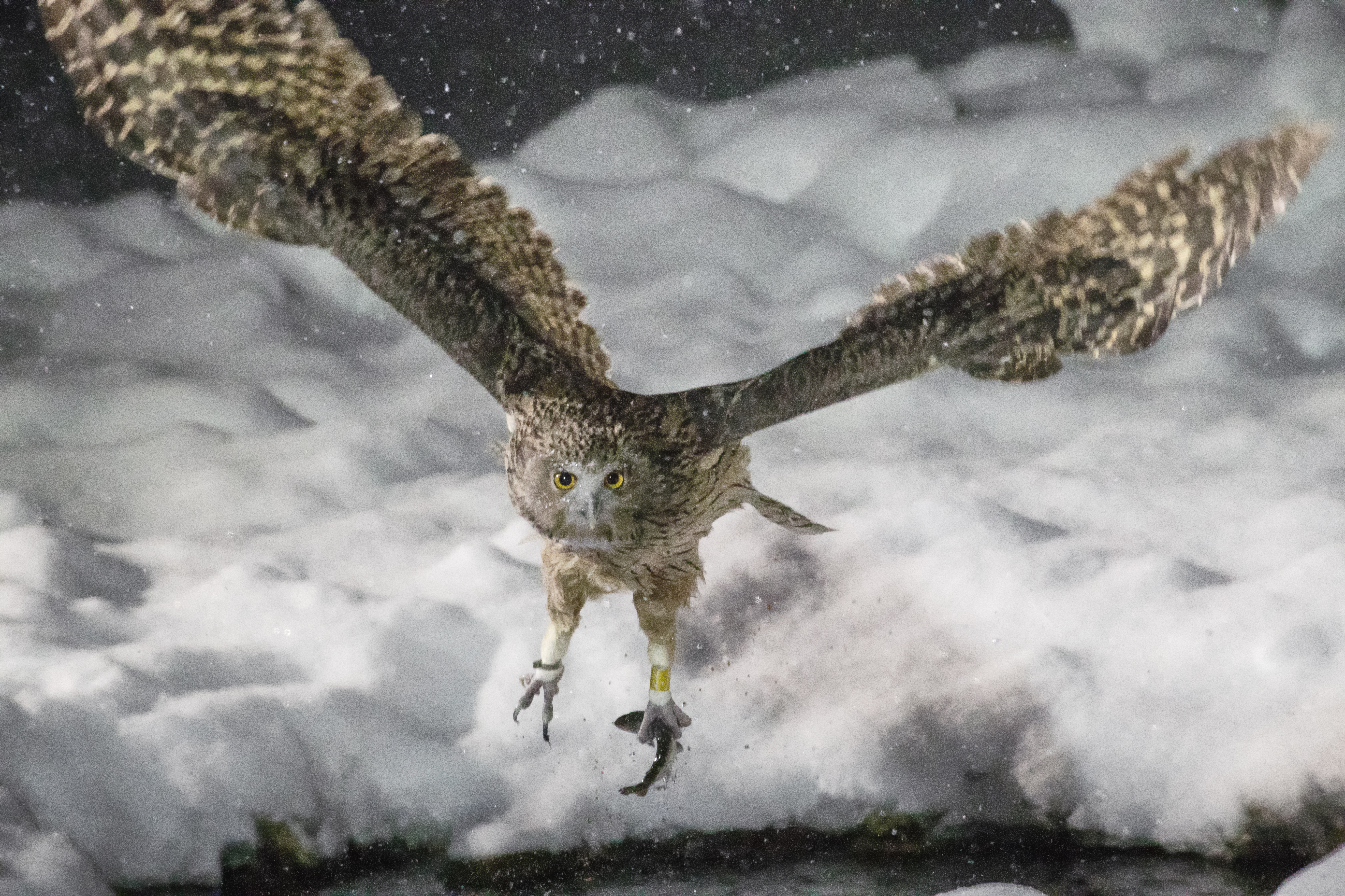 After consuming two fish from a stream, a Blakiston's fish owl (Bubo blakistoni) flies off with a third fish to give to its mate waiting in a tree nearby. Rausu, Hokkaido, Japan.